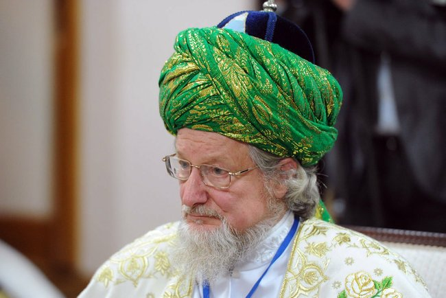 Supreme Mufti of Russia Talgat Tadzhuddin in Ufa, Russia, October 22, 2013.